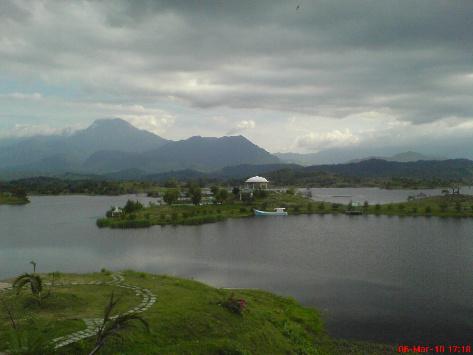 Waduk Keuliling,Kuta Cot Glie, Aceh Besar, Indonesia